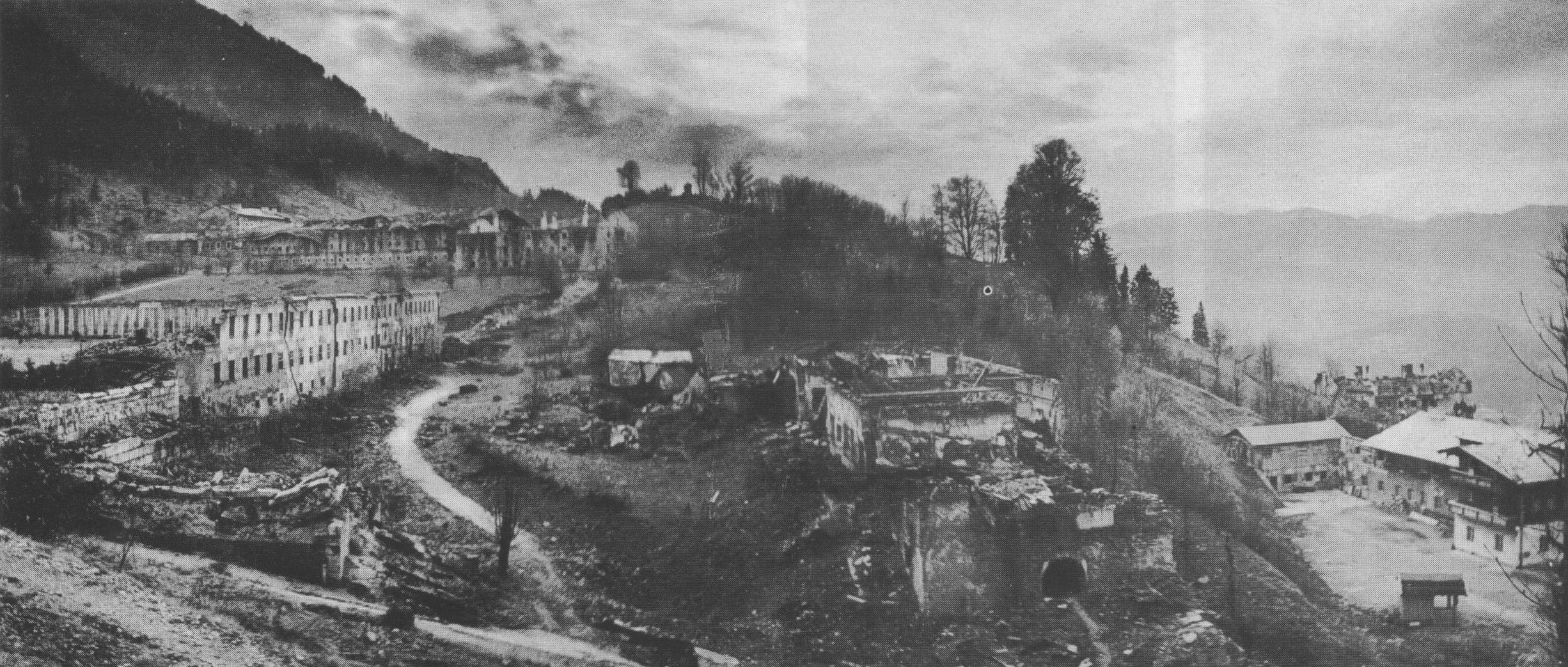 The Führersperrgebiet Obersalzberg in November 1951For identification of the buildings